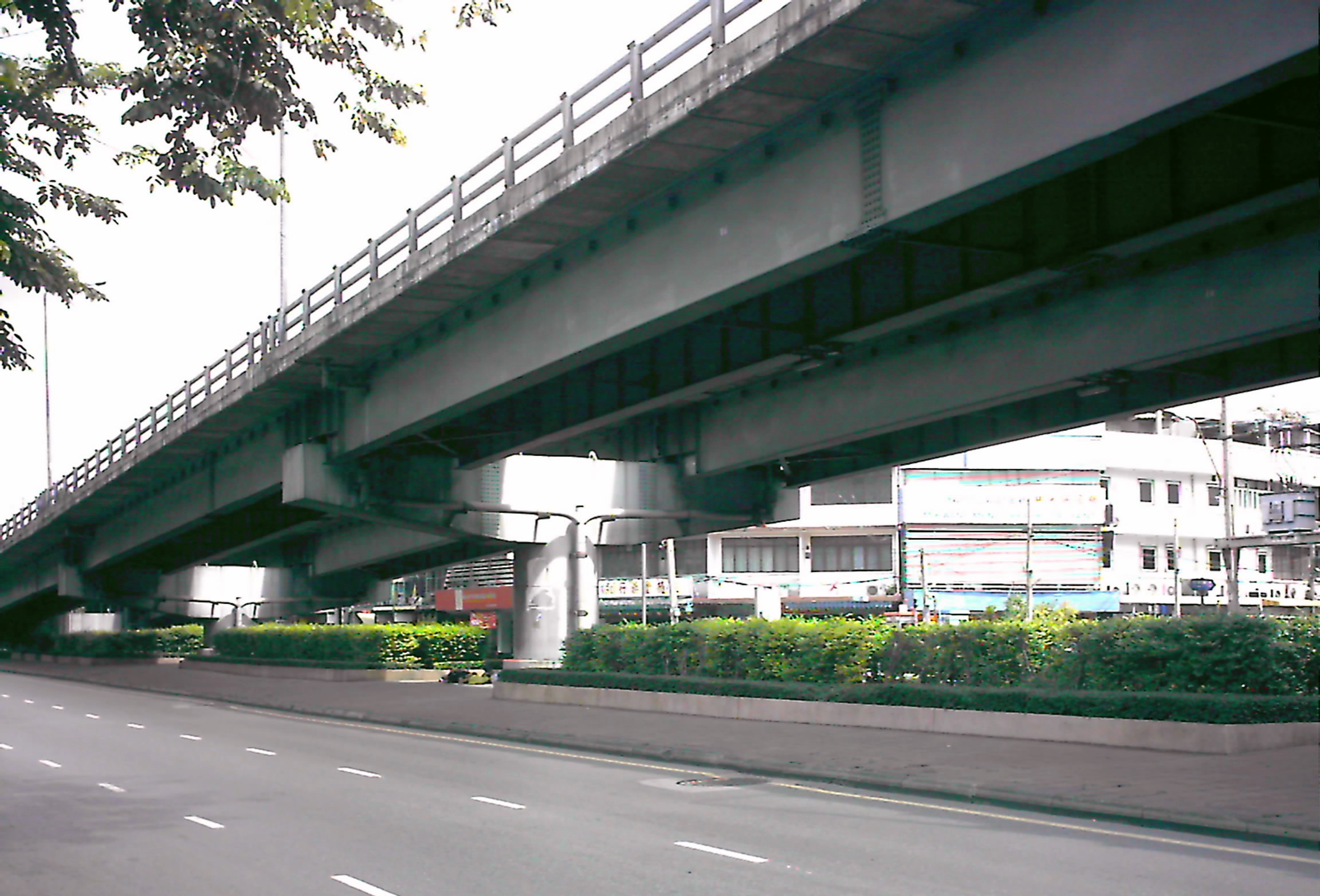 Rama 4 Road, Bangkok, Thailand 中文（香港）: 泰國，曼谷，拍喃四路。